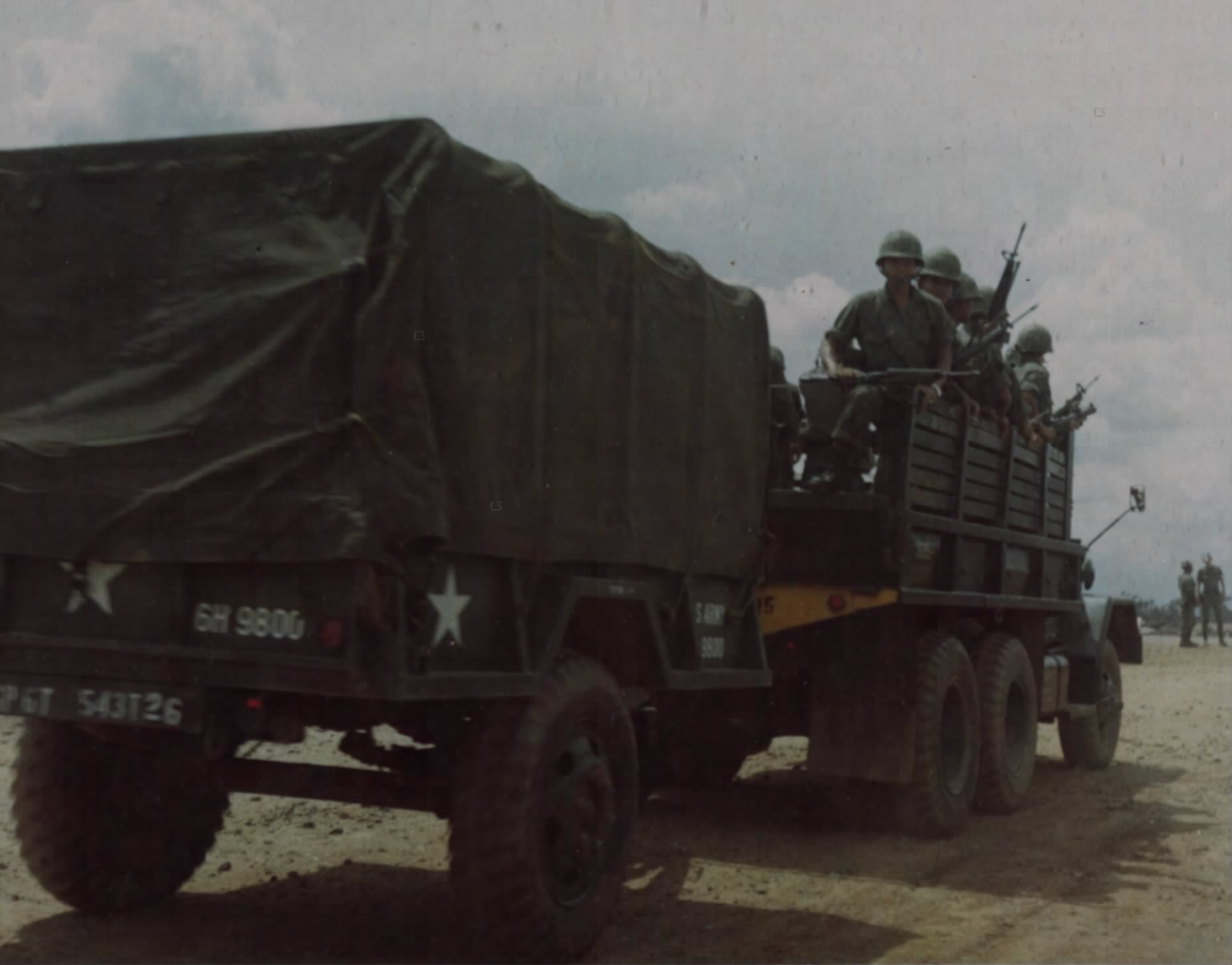 Members of Black Panther Division, loaded onto 2 1/2 ton trucks, roll through the gate of the US Army Terminal at Newport Docks enroute to Bearcat